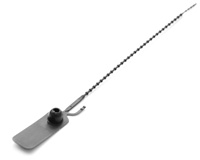 Cable Tie Plomb